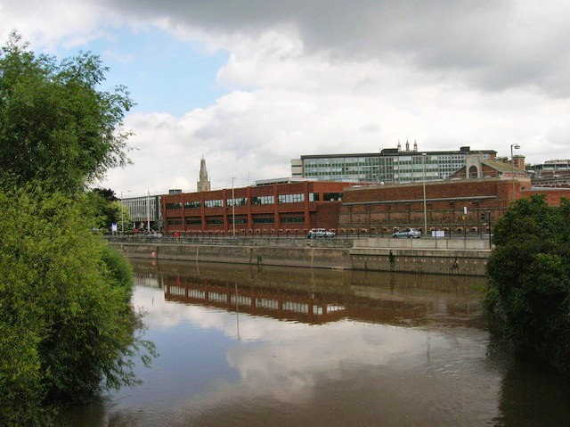 The former site of Gloucester Castle, now Gloucester Prison. By Alby